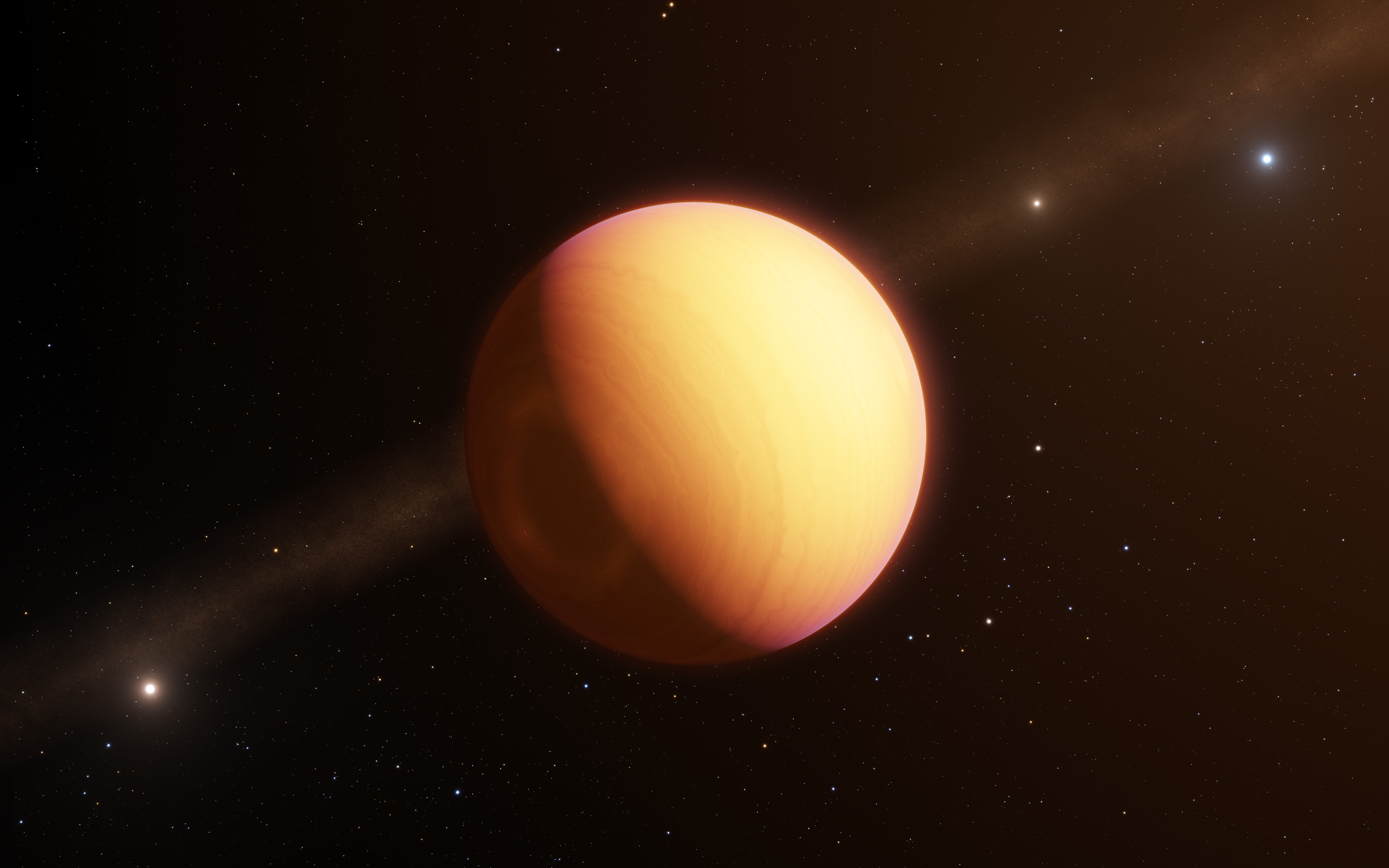 The GRAVITY instrument on ESO’s Very Large Telescope Interferometer (VLTI) has made the first direct observation of an exoplanet using optical interferometry. This method revealed a complex exoplanetary atmosphere with clouds of iron and silicates swirling in a planet-wide storm. The technique presents unique possibilities for characterising many of the exoplanets known today. This artist’s impression shows the observed exoplanet, which goes by the name HR8799e.